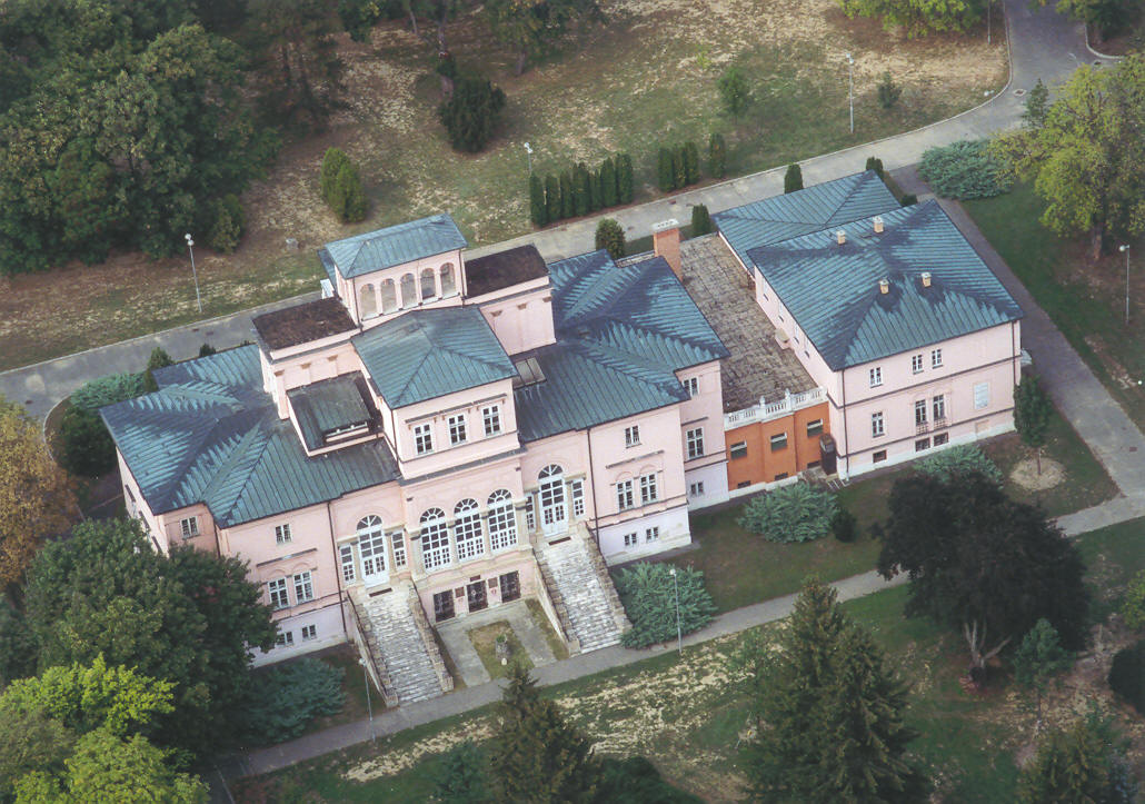 Palace - Ikervár - Hungary - Europe